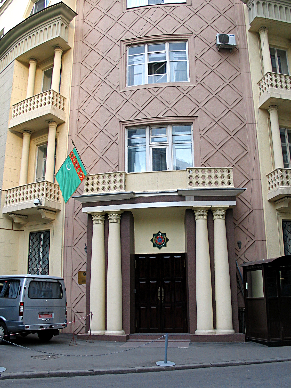 Embassy of Turkmenistan in Moscow (Filippovsky Lane, 22)